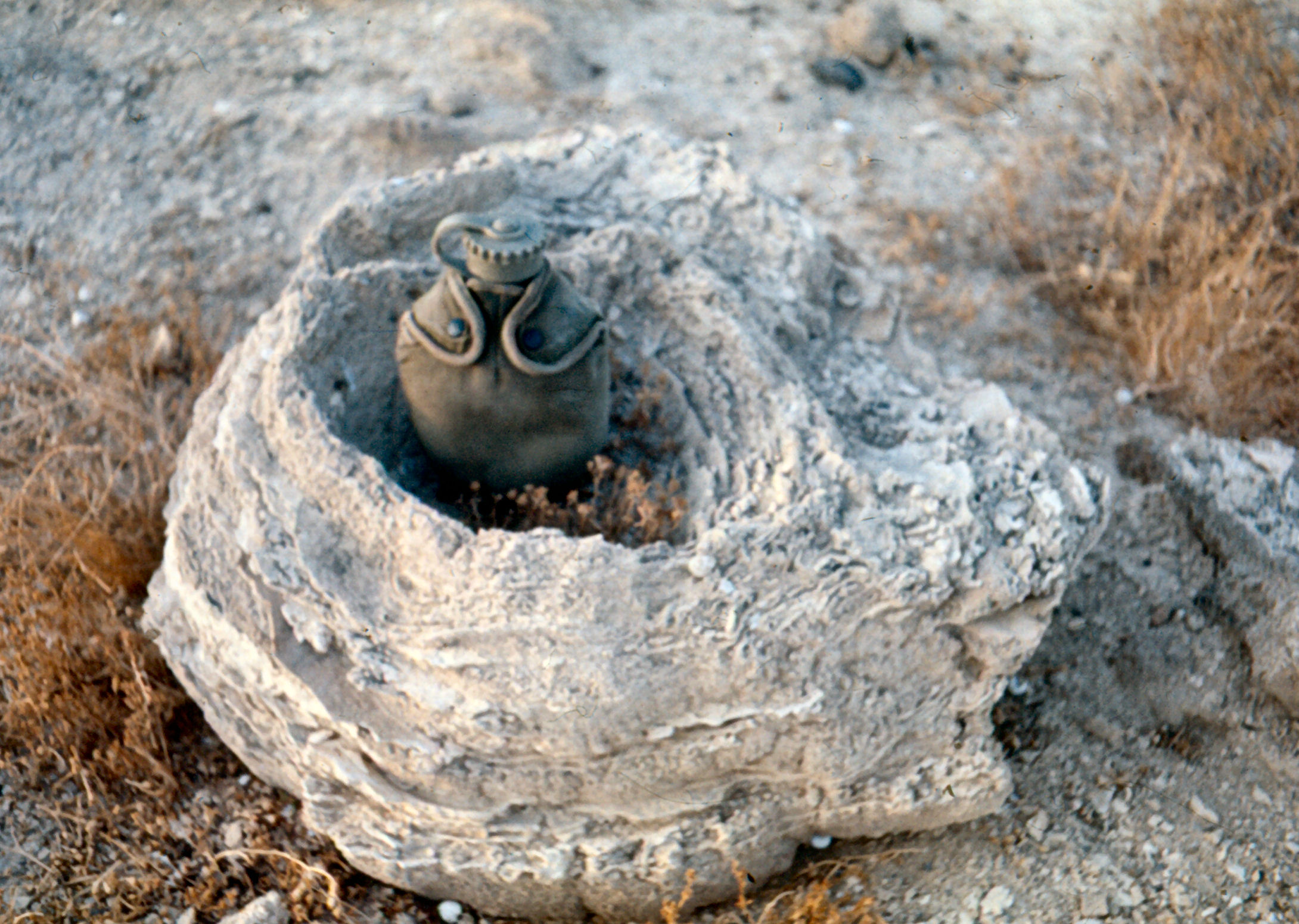 Fossil_algae_from_south_Jordan_Valley_Israel